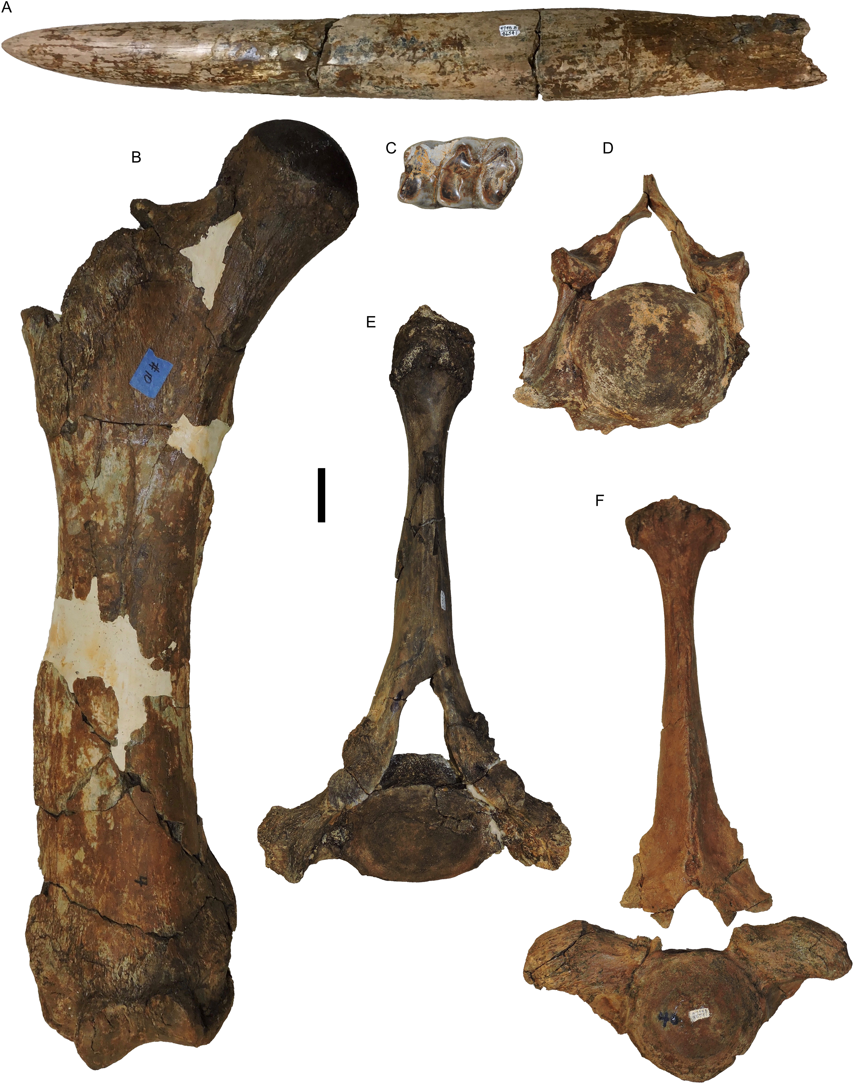 Mammut pacificus, partial skeleton (SDSNH 86541), (A) Left tusk (I1) in lateral view; (B) right femur in anterior view; (C) right m2, occlusal view; (D) cervical vertebra, anterior view; (E and F) anterior thoracic vertebrae, anterior view; Wanis View Estates #5, Oceanside, San Diego, California; Upper Pleistocene; Scale 5 cm